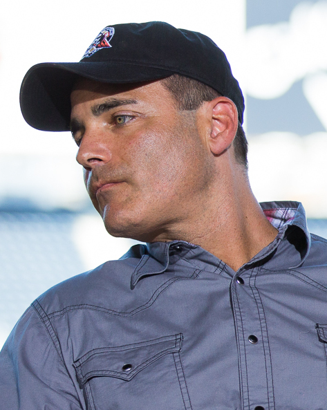 Camp Conival offsite at Petco Park during San Diego Comic-Con 2016